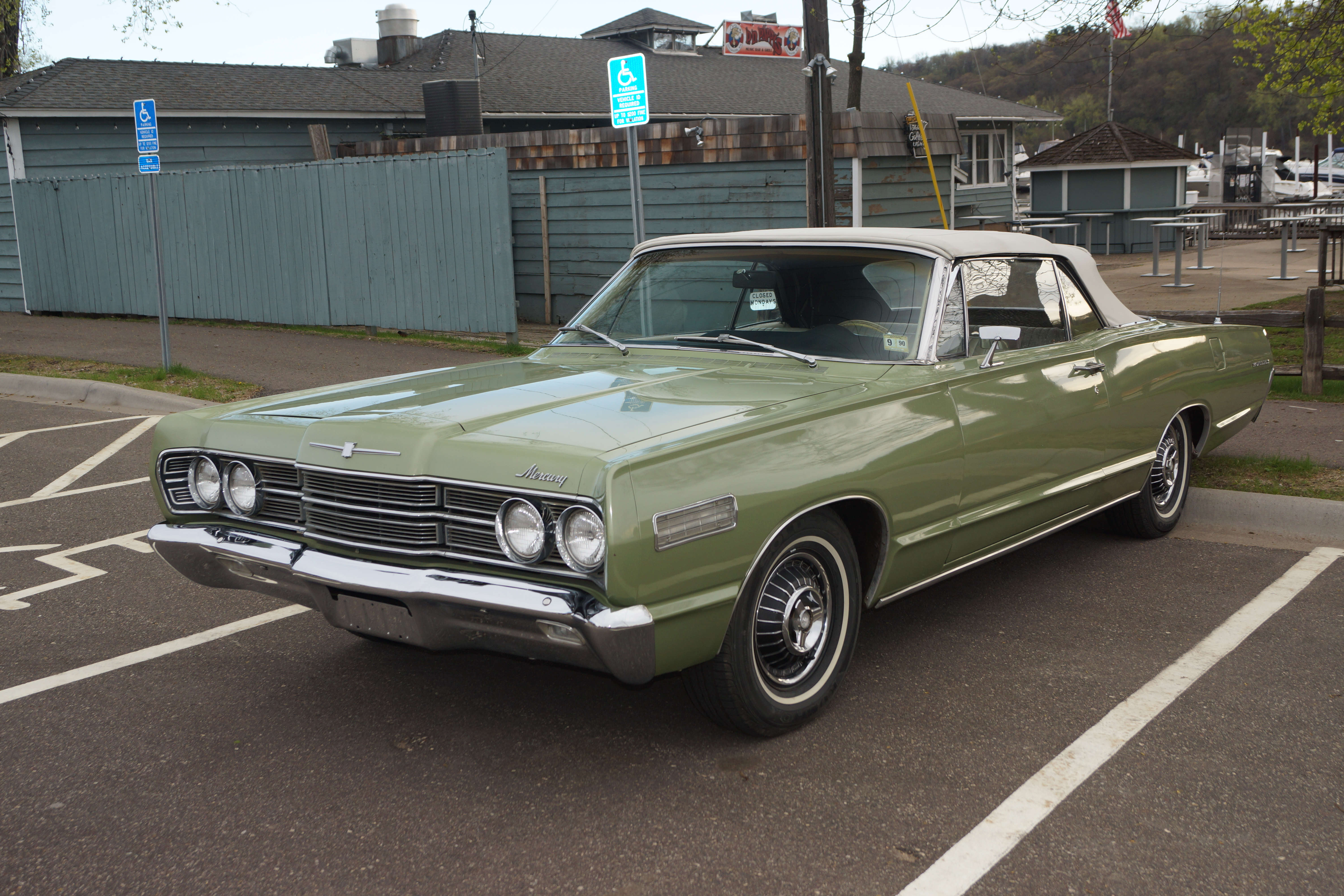 Francis invited me to ride along on the Upper Midwest Region Classic Car Club of America's Spring Garage Tour. Unfortunately, Francis was unable to make it, so I went and took pictures for him. The tour started in Hastings, Minnesota and ventured east into Wisconsin. The day started out sunny, but got cloudier as the day progressed. Still a nice day and good for avoiding shadows on outdoor shots. Even though I was busy taking pictures, I had a chance to talk to a lot of nice people and see some very amazing cars. Taking pictures on a garage tour is always a little frustrating. You get to see these beautiful cars, but usually a garage setting is too tight to get nice pictures. The route was beautiful, but I had a few missed turns primarily because Wisconsin's road marking methods are a little different than what I am used to in Minnesota. It was a great day and I would like to shout out a big "THANK YOU!" to the hosts that opened up their garages and to event coordinators that put the whole thing together. Click here for more car pictures at my Flickr site. Or here for my Car Crazy Tumblr site. Or on Twitter @DVS1mn.